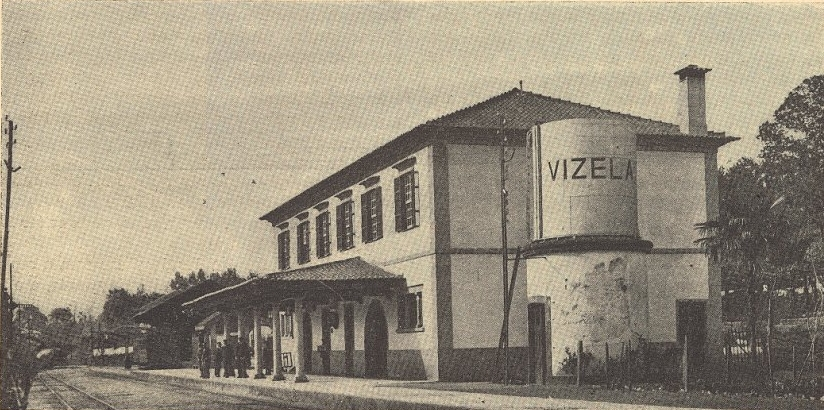 Vizela Railway Station, on the Guimarães Railway, in Portugal. This photograph was published on the Gazeta dos Caminhos de Ferro magazine no. 1290, of the 16th September 1941, and scanned by the Hemeroteca Municipal de Lisboa.